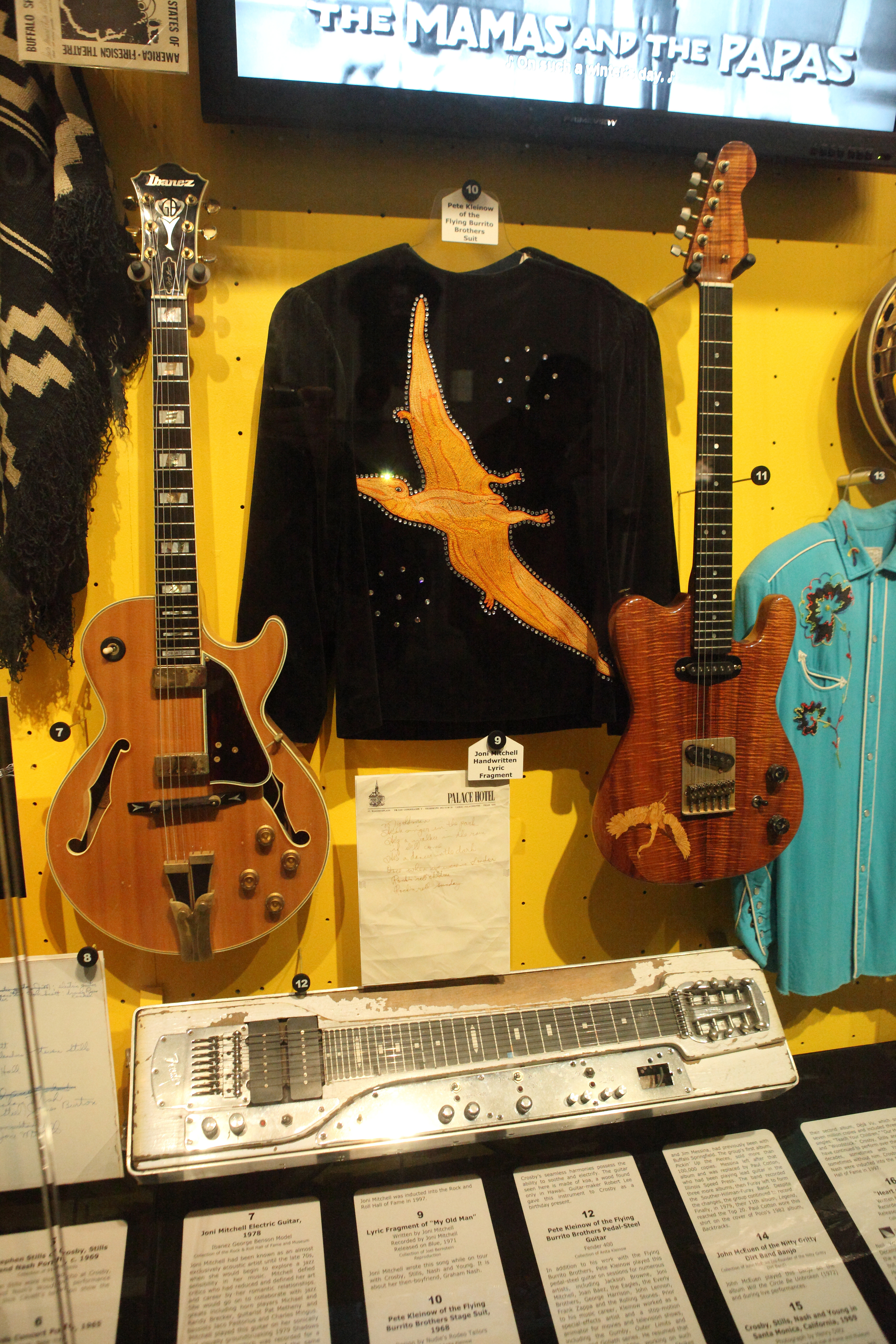 1970s artifacts at the Rock and Roll Hall of Fame in Cleveland, Ohio. 5 ...phen Stills & Crosby, Stills and Nash Portrait C. 1969 ... 6 ..., 1965 ... 7 Joni Mitchell Electric Guitar, 1978 Ibanez George Benson Model Collection of the Rock & Roll Hall of Fame and Museum ... 8 ... ... 9 Lyric Fragment of "My Old Man" Written by Joni Mitchell Recorded by Joni Mitchell Released on Blue, 1971 Collection of Joef Bernstein Reproduction ... 10 Pete Kleinow of the Flying Burrito Brothers Stage Suit, 1968 ... 11 ... Crosby's seamless harmonies possess the ability to soothe and electrify. The guitar seen here is made of koa, a wood found only in Hawaii. Guitar-maker Robert Lee gave this instrument to Crosby as a birthday present. 12 Pete Kleinow of the Flying Burrito Brothers Pedal-Steel Guitar Fender 400 Collection of Anita Kleinow ... 13 ... and Jim Messina, ... Finally, in 1979, their 11th album, Legend, reached the Top 20. Paul Cotton wore this shirt on the cover of Poco's 1982 album, Backtracks. 14 John McEuen of the Nitty Gritty Dirt Band Banjo ... 15 Crosby, Stills, Nash and Young in Santa Monica, California, 1959 ... 16 "Heart ... ... Flickr Tags: ohio guitar cleveland instrument 1970s rockandrollhalloffame. Flickr Tags: Rock and Roll Hall of Fame Cleveland Ohio. from Flickr album "Rock and Roll Hall of Fame" by Sam Howzit